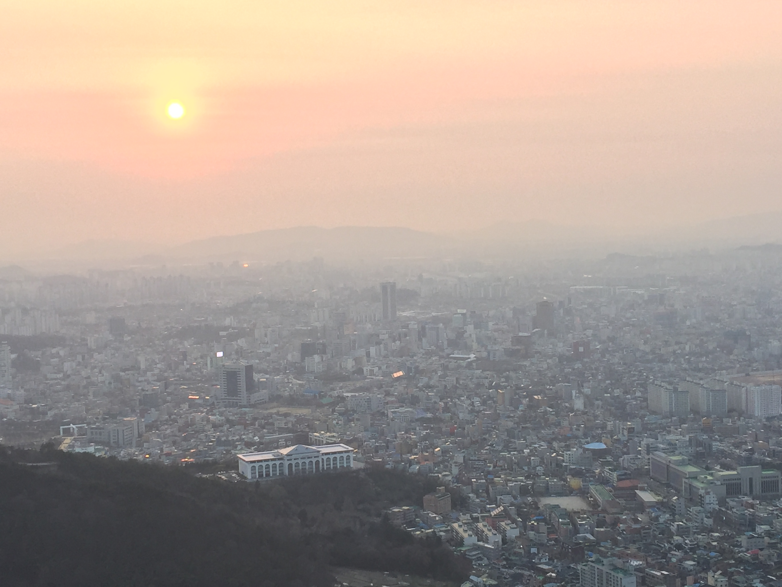 This picture was taken from a hill overlooking Gwangju